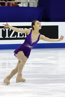 World Championships 2015 – Ladies (So Youn PARK KOR – 12th Place)